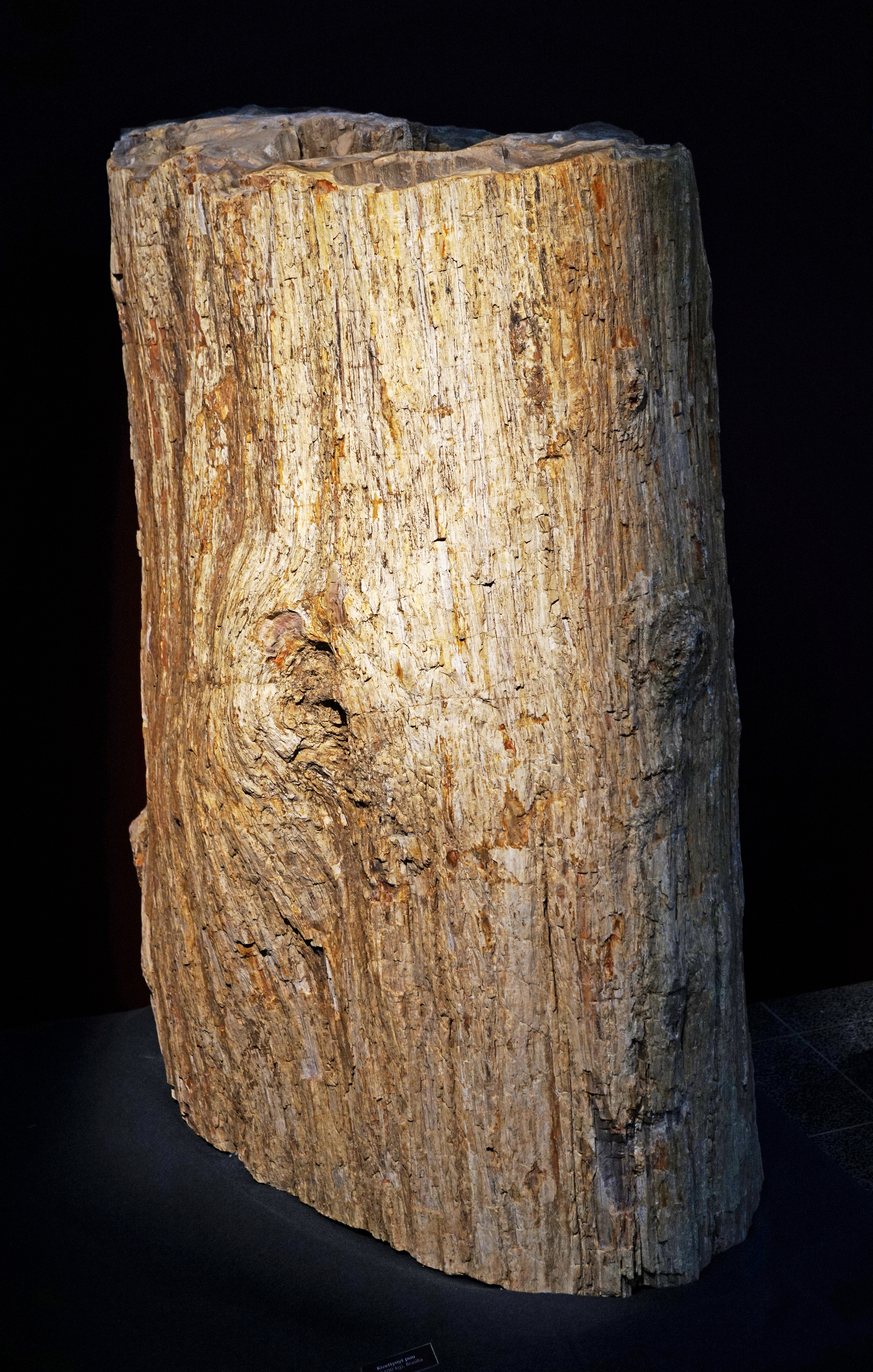 Petrified wood in Tampere Mineral Museum.